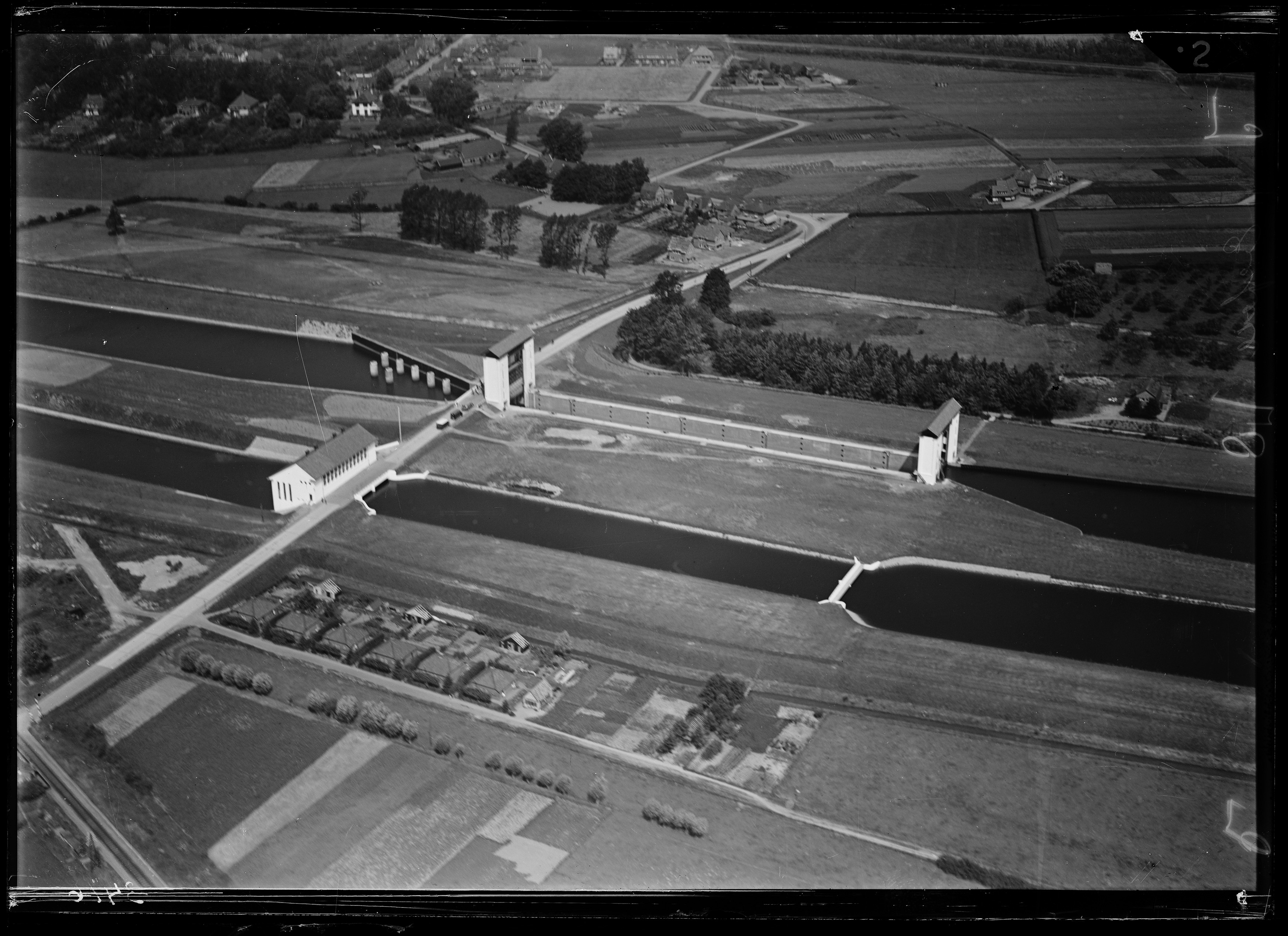 Aerial photograph of Eefde, The Netherlands